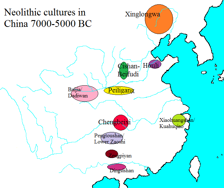 Map of Chinese mesolithic cultures